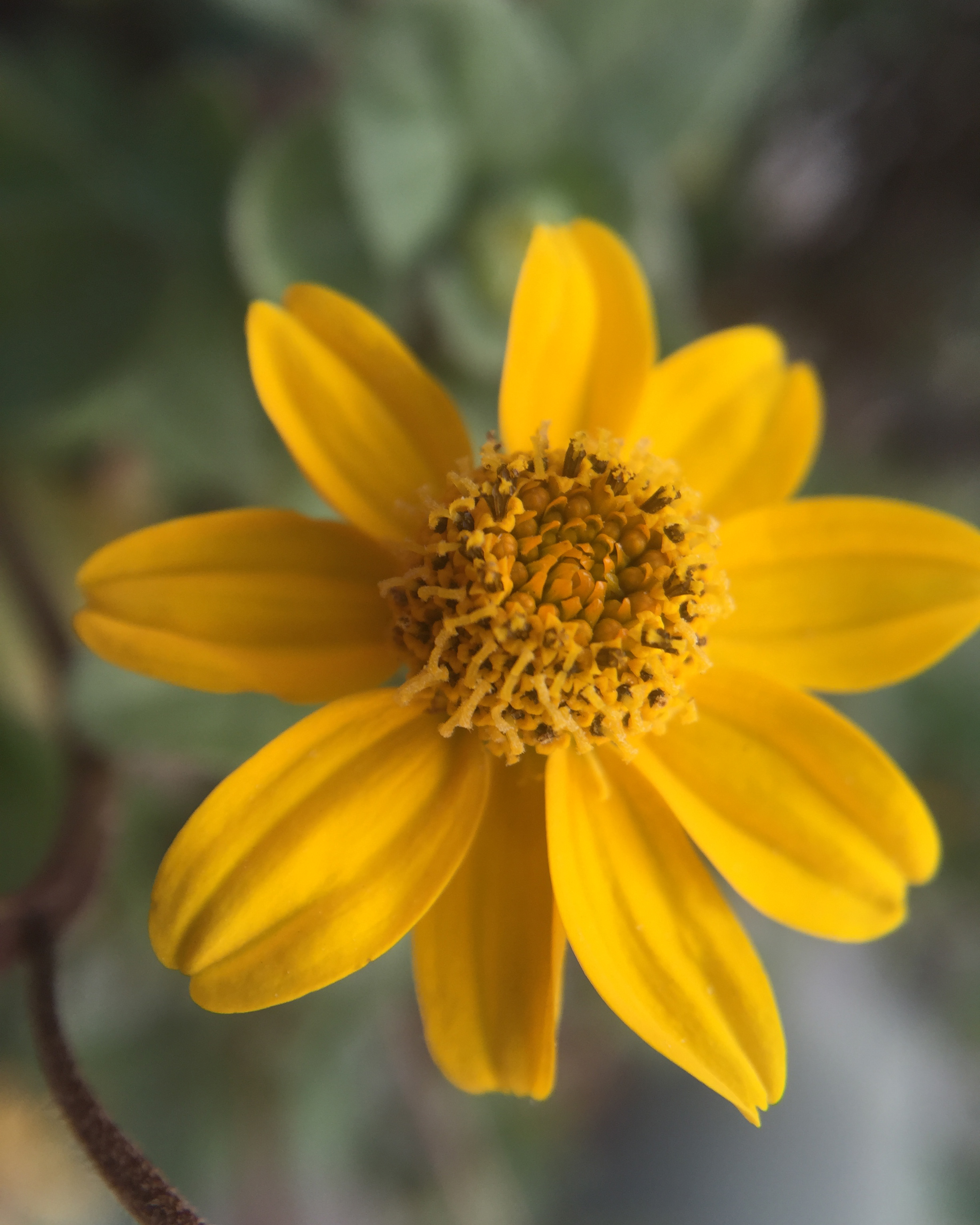 Helipsis longipes, Querétaro,México.